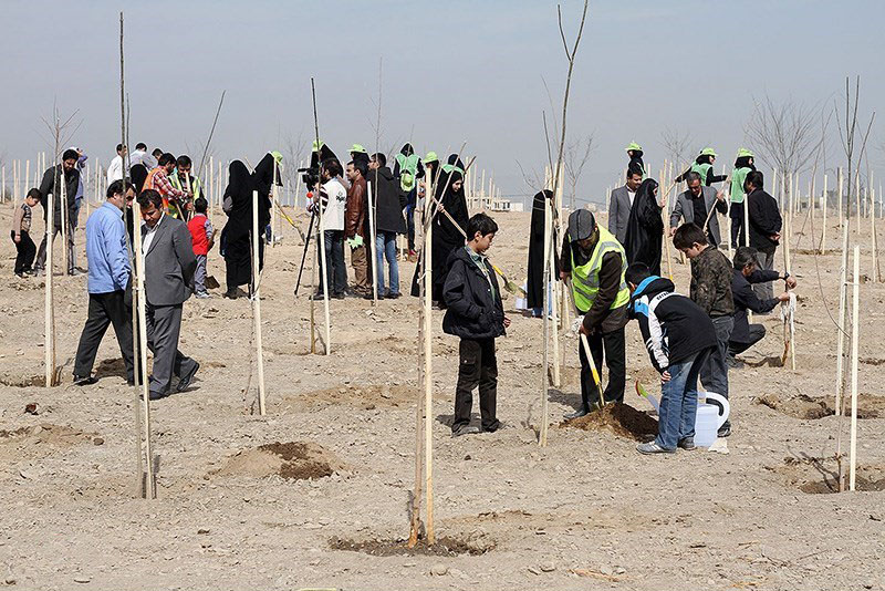 Tree planting by people of Mashhad in Arbor Day.